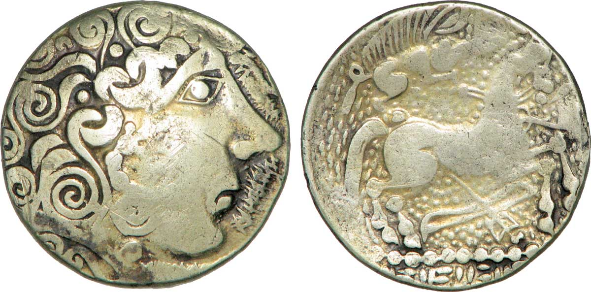 Calètes (Pays de Caux) Hémistatère “au sanglier aurige”. Date : IIe - Ier siècles avant J.-C. Description avers : Tête d’Apollon à droite, la chevelure ornementée en esses enchevêtrées ; la base du cou ornée et deux motifs de pomme de pin (?) devant le visage .